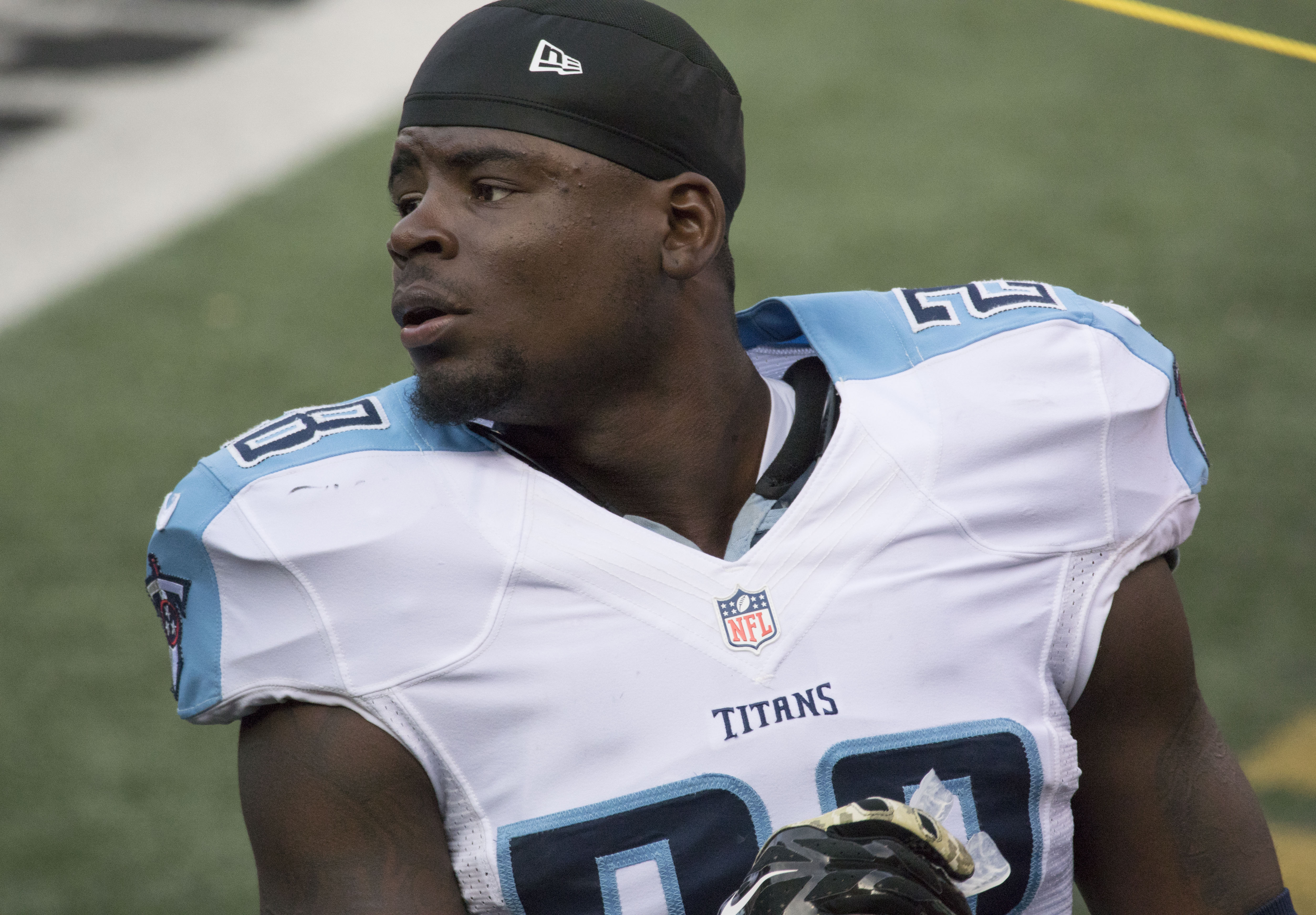 Tennessee Titans safety, Marqueston Huff, in a game against the Baltimore Ravens on November 9, 2014.